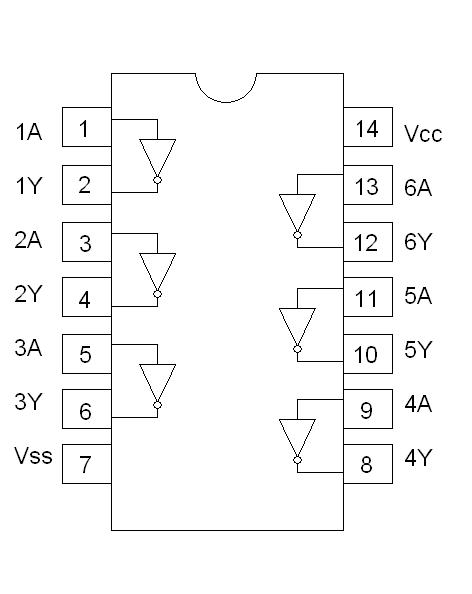 7404 circuit pin layout